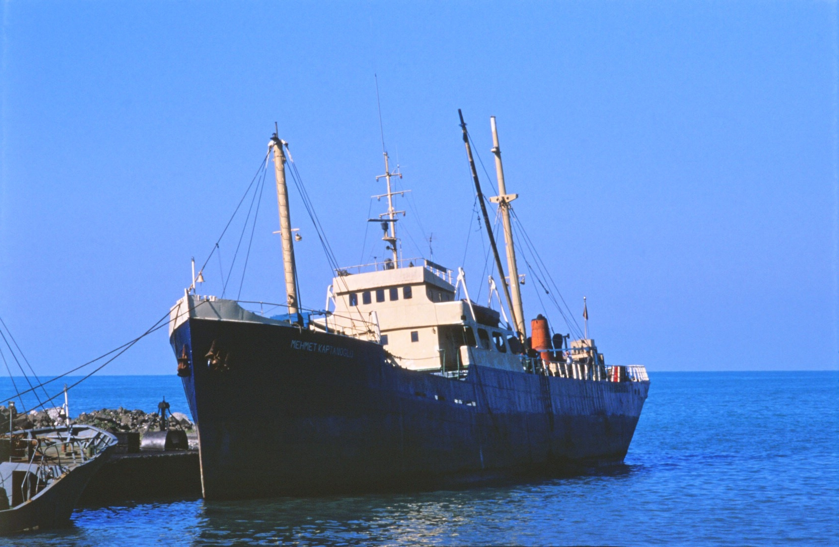 Built in Oslo 1907. Previous name: Jelø until 1925. Pre-war history (from T. Eriksen (his source: Articles about Stavangerske D/S in the Norwegian magazine "Skipet" 2.90 and 1.91 by Alf Johan Kristiansen): Delivered in July-1907 from Akers Mek. Verksted, Oslo as Jelø to A/S Nordsjøen (Rich.Peterson), Oslo. Steel hull, 197.7’ x 28.4’ x 14.1’, Tripple Expansion (Akers) 92nhp, 10 knots, 654 gt, 875 tdwt. Taken over by A/S Jelølinjen (Fred. Olsen & Co.), Oslo in July-1923. Sold in May-1925 to Det Stavangerske Dampskibsselskab, Stavanger, renamed Ulsnes. In service Trondheim/Western part of Norway – Stettin / Lübeck. WW II: When the war broke out in Norway on Apr. 9-1940 she was in Malmö, Sweden on a voyage to Stettin. Registered in Nortraship's fleet in the summer/early fall of 1940, then requisitioned by the Swedish Government on October 25-1940, and traded for the Swedish State traffic commission (Stockholms Rederi-AB Svea, Stockholm). Ships in Sweden has a list of, and information on the Norwegian ships there at the outbreak of war in Norway. POST WAR: Returned to owners in May-1945 and into Hurtigruten service Stavanger-Sandnes-Oslo. Later (possibly 1946?) she returned to the Baltic trade. Sold in Oct.-1952 to Mustafa ve Ahmed ve Vehbi Aldikacti Vapurculuk Kollektif Sirketi, Istanbul, Turkey, renamed Calti. Sold in 1959 to Saban Kasaroglu Mehmet Kasar ve Ortaklari, Istanbul, rebuilt, 683 gt, (a 6cyl 4tev Burmeister & Wain [Akers] 550 bhp [1926] engine was installed). Trading as Gerze 1960. Sold in 1963 to Mehmet Kaptanoglu, Istanbul, renamed Mehmet Kaptanoglu. Extensively rebuilt in 1964, became 498 gt, 1150 tdwt, 8cyl 4tev Liebknecht 720bhp, 8 knots. Still in service in 1990. (Also from T. Eriksen). (this text came from )